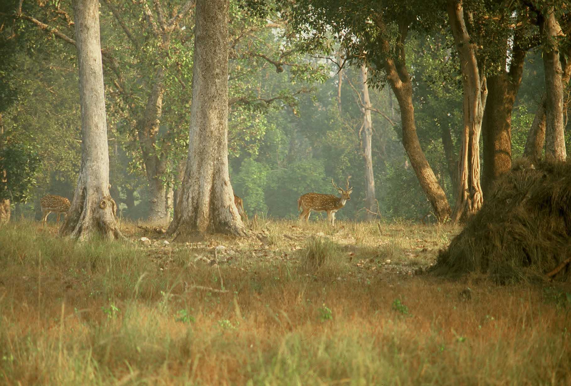 Spotted deer (Axis axis) at Kanha National Park, Madhya Pradesh, India.